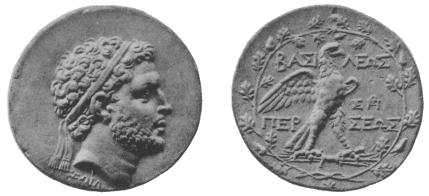 Coin of Perseus of Macedon. Greek inscription reads ΒΑΣΙΛΕΩΣ ΠΕΡΣΕΩΣ (King Perseus) from 1889 edition of Principal Coins of the Ancients.